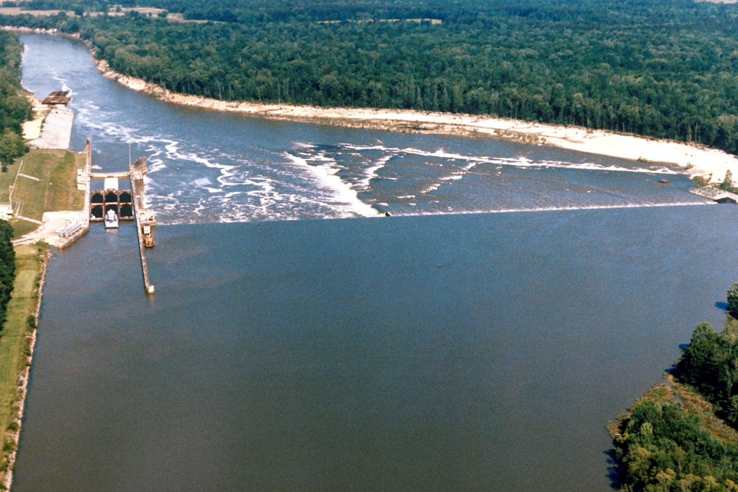 Demopolis Lock and Dam on the Tombigbee River near Demopolis, Alabama, USA. The lock is located about 4 miles (6.4 km) below the confluence of the Tombigbee and the Black Warrior Rivers. The lock and dam are one of a series of locks and dams that provide a 9-foot navigation channel on the Tombigbee River.